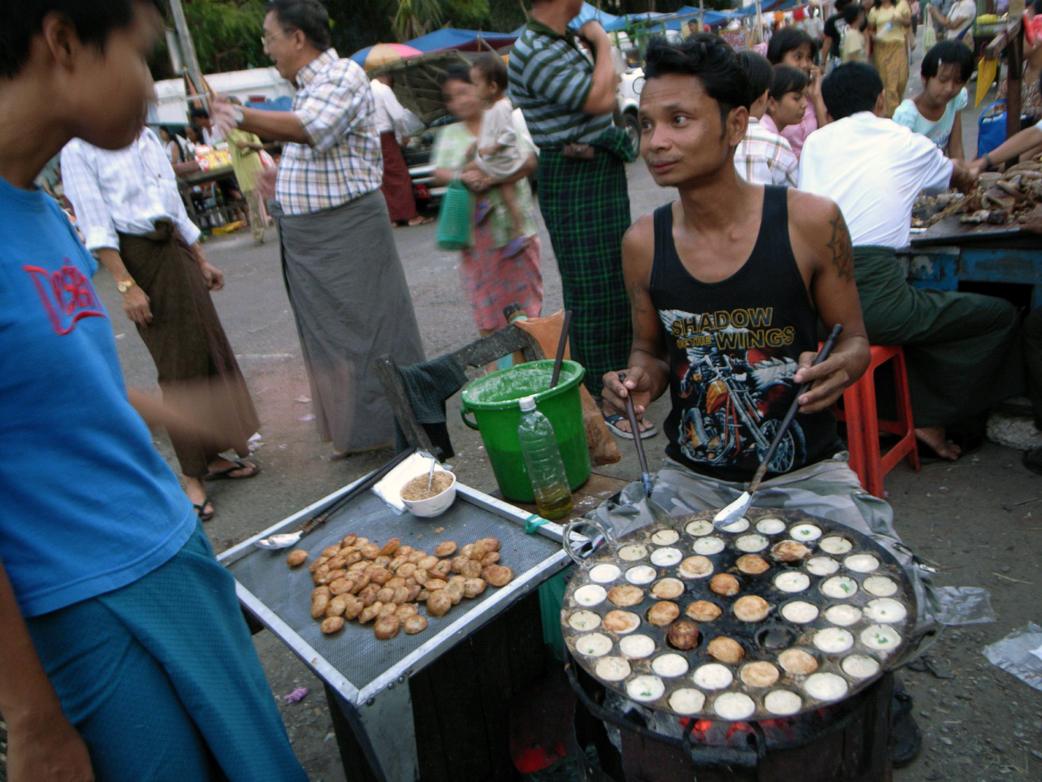 Burmese snack street vendor in Yangon selling mont lin mayar